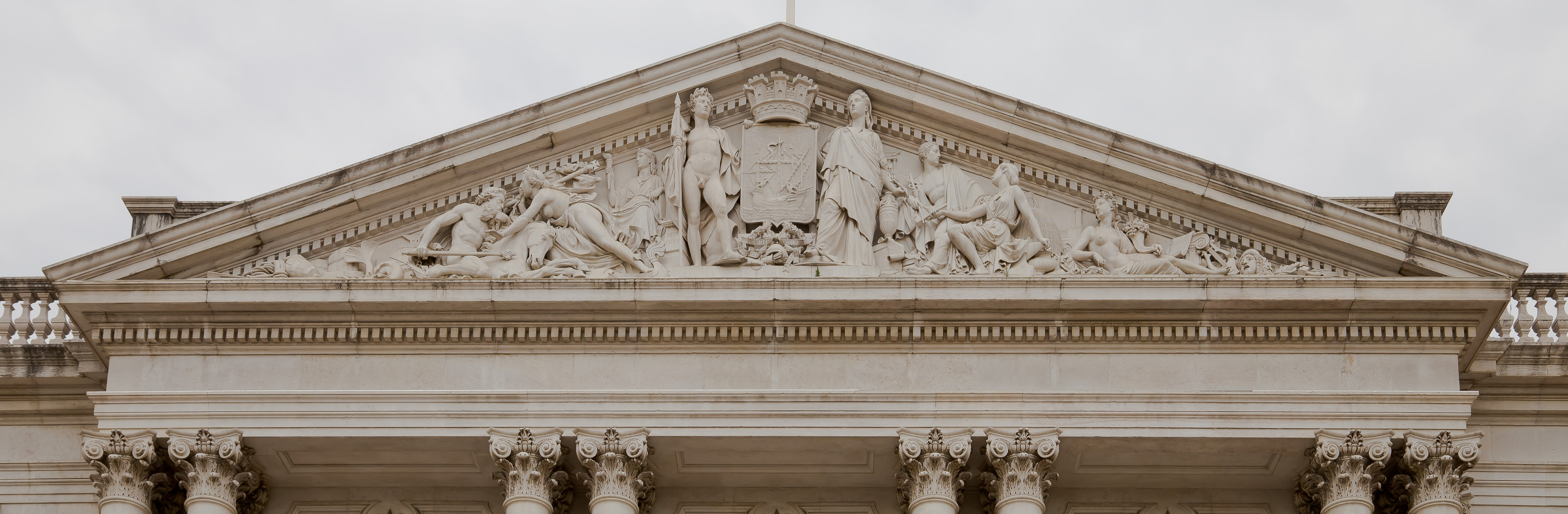 Lisbon Town Hall, Lisbon, Portugal